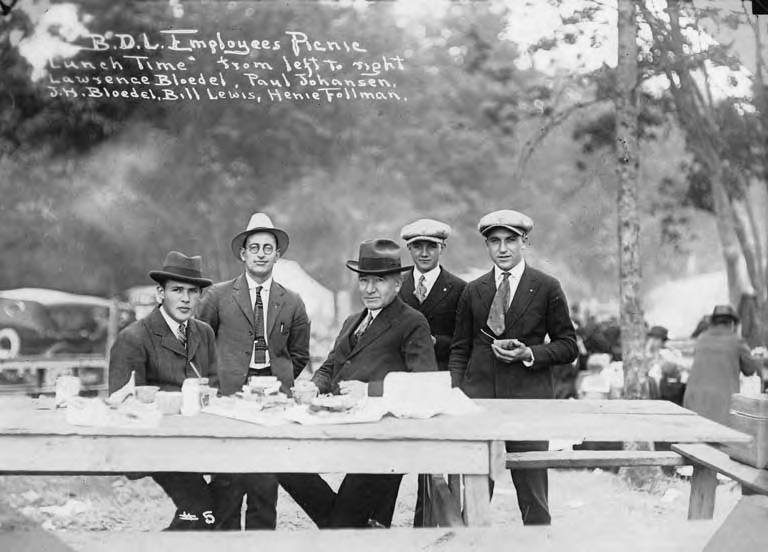 Written on photo: B.D.L. Employees Picnic "Lunch Time" from left to right: Lawrence Bloedel, Paul Johansen, J.H. Bloedel, Bill Lewis, Henie Follman.Written on verso: July 22, 1922. PH Coll 531.H12 Subjects (LCSH): Bloedel, Julius H., 1864-; Bloedel-Donovan Lumber Mills (Seattle, Wash.)